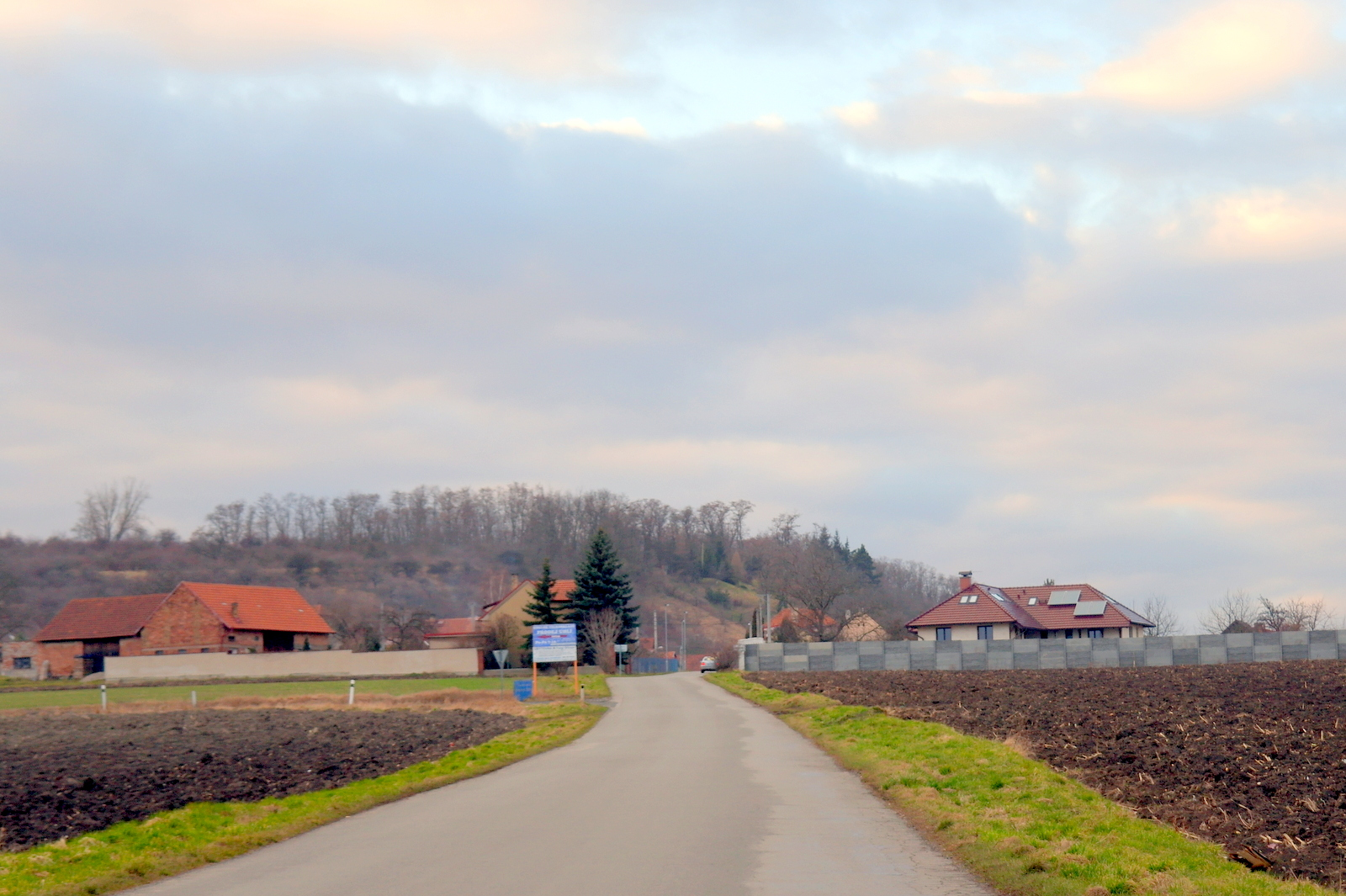 Dřínov, Mělník district. The entrance to the village from the south. In the background, nature reserve Dřínovská stráň (Dřínov hillside).